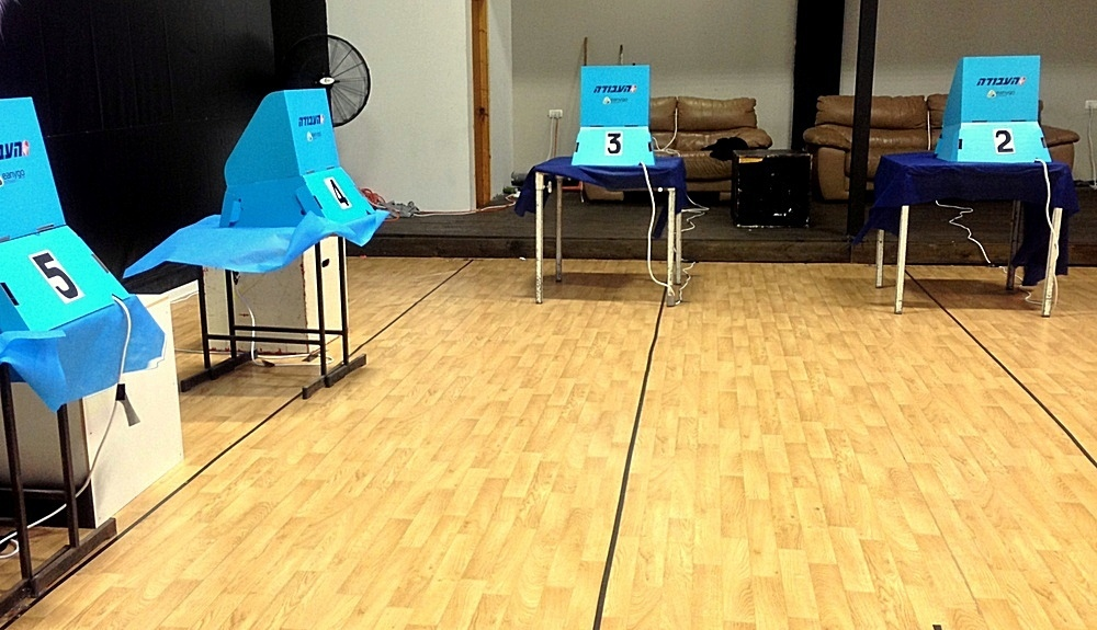 Electronic ballot boxes in the primaries for the post of Chairman of the Israeli Labor Party, July 2017. The picture was taken at the voting site in Kiryat Motzkin (Lev Hakrayot - Ravmad center)